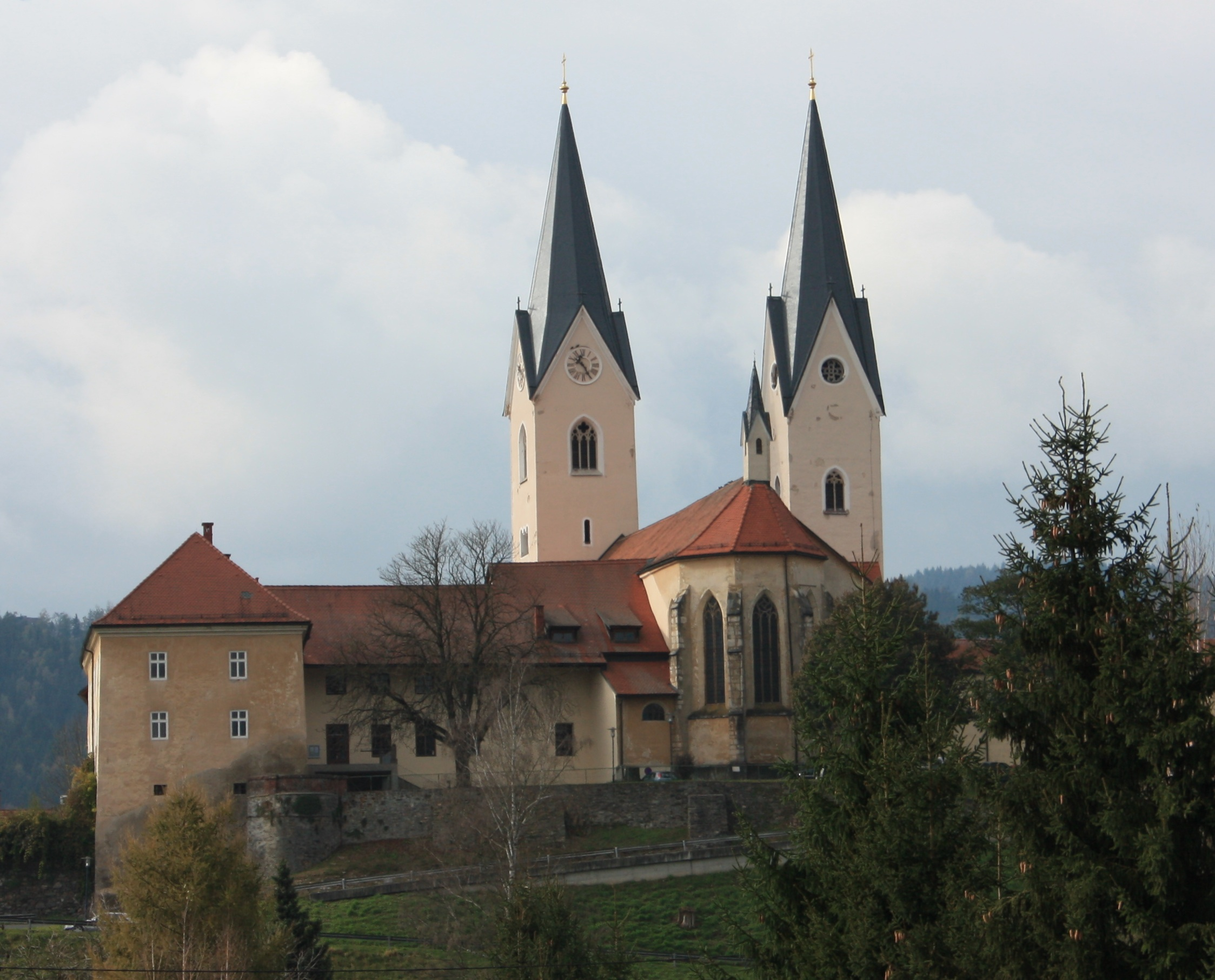 Parish church Saint Andrew Locality: Sankt Andrä Community:Sankt Andrä